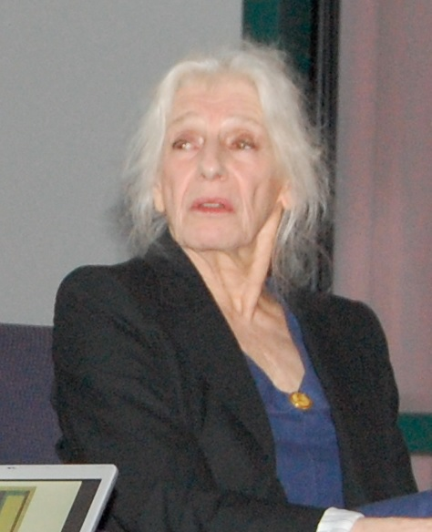 Jo Baer at Hunter College